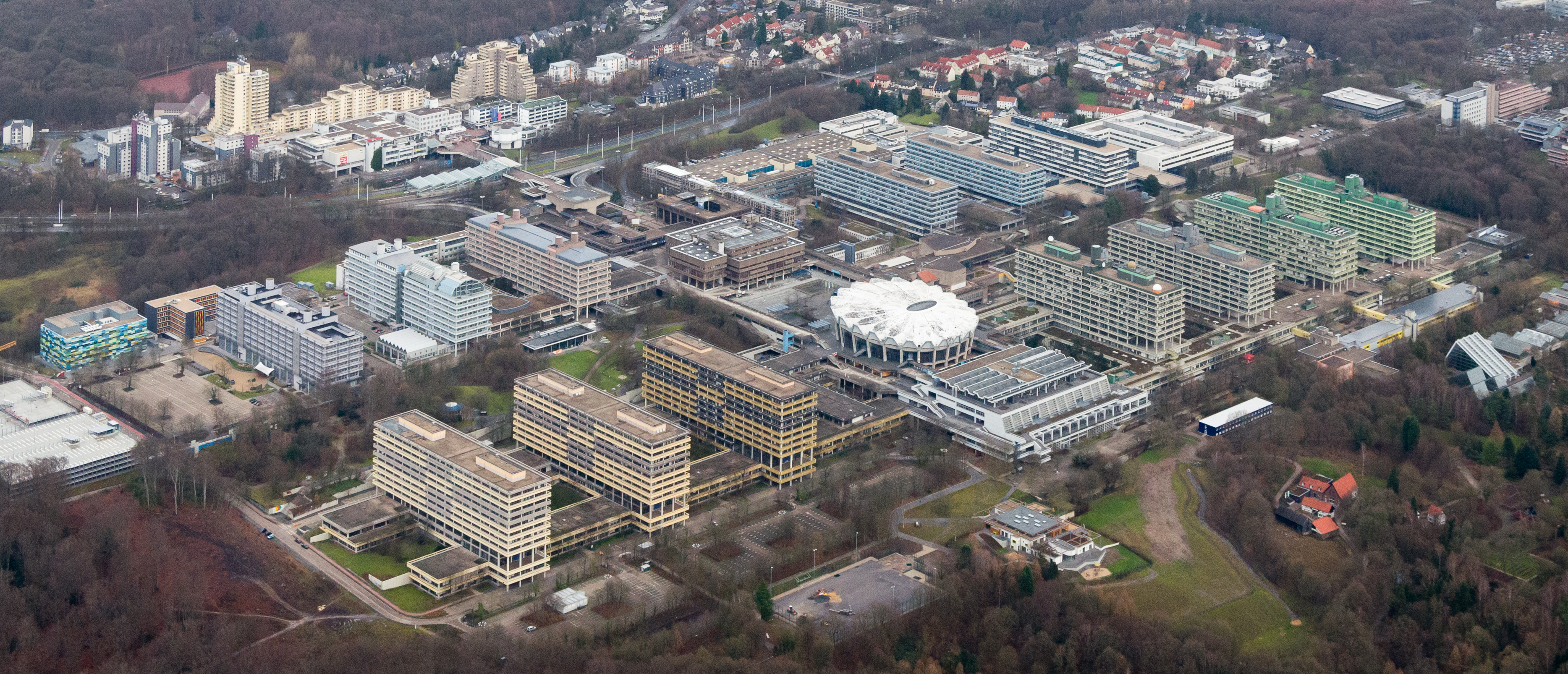 Aerial photograph of RUB = Ruhr University Bochum. Left hand side (top): Uni-Center (residential buildings+Shopping center); right hand side: Auditorium Maximum = Audimax with dining center.